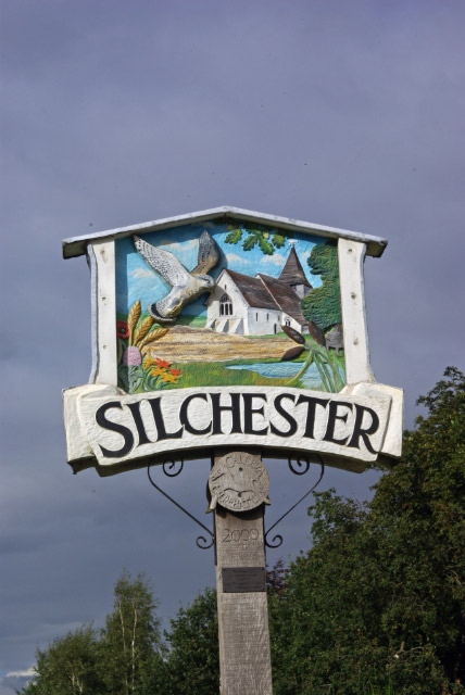 Silchester Village sign primarily featuring the church of St Mary the Virgin.